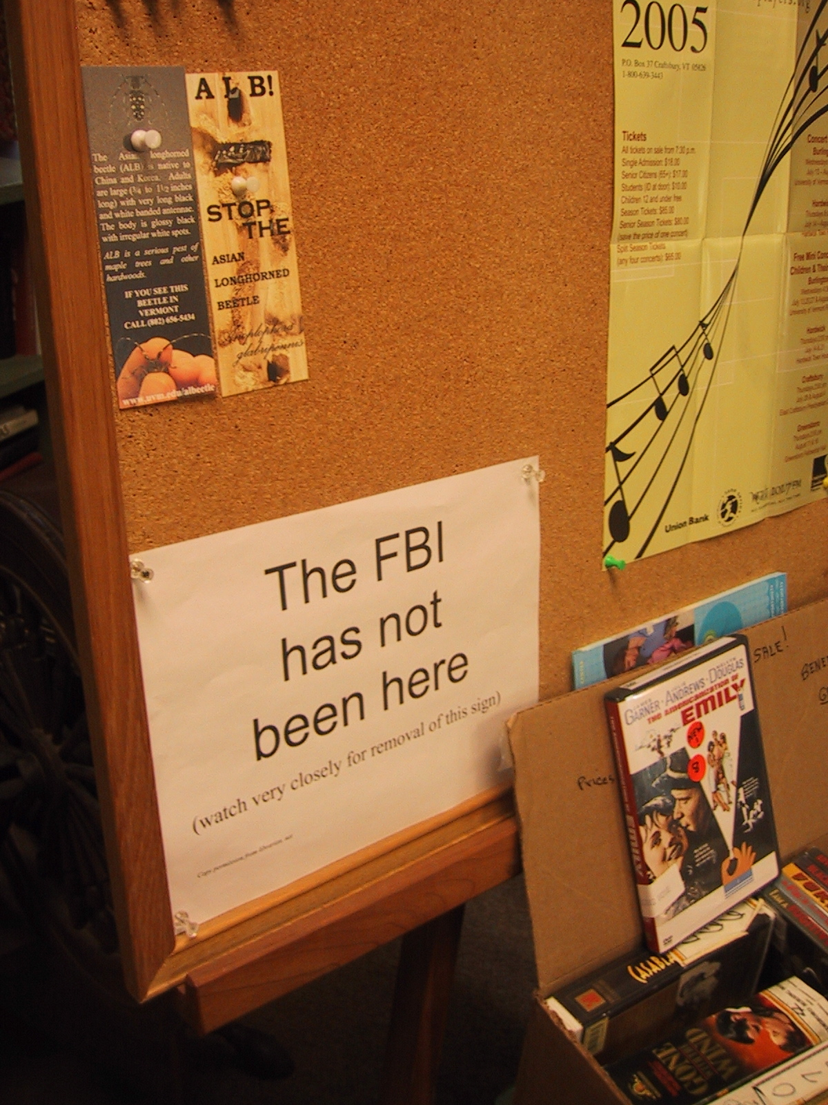 A sign in a public library, "The FBI has not been here (watch very closely for the removal of this sign)". This is a reaction to §215 of the PATRIOT Act (the so-called "library records provision") that give the FBI access to patron's library records and barred libraries from notifying patrons that the FBI had visited. However, the law does not prevent libraries from stating that the FBI has not visited, or removing such a sign when it is no longer true (i.e. a warrant canary).